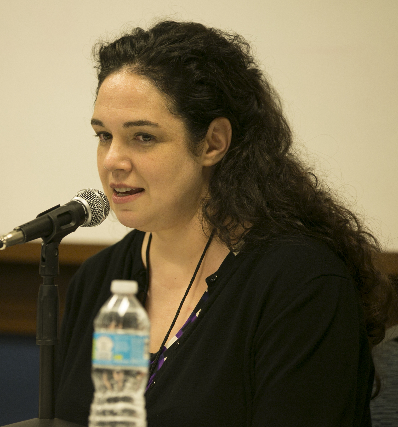 Rachael Lillis at Animate Florida in 2017